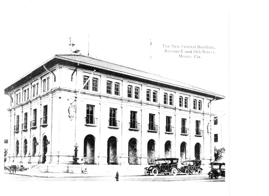 Old Miami Federal Building ca 1917 showing weather instruments on the roof, the Miami Weather Bureau Office was located on the third flood 1917-1929.